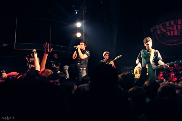 Pictures Inside Me (UA),UA, Mariupol, Arlekin club, live 2009